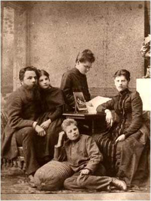 Dmitri Jermakov's family. 1896